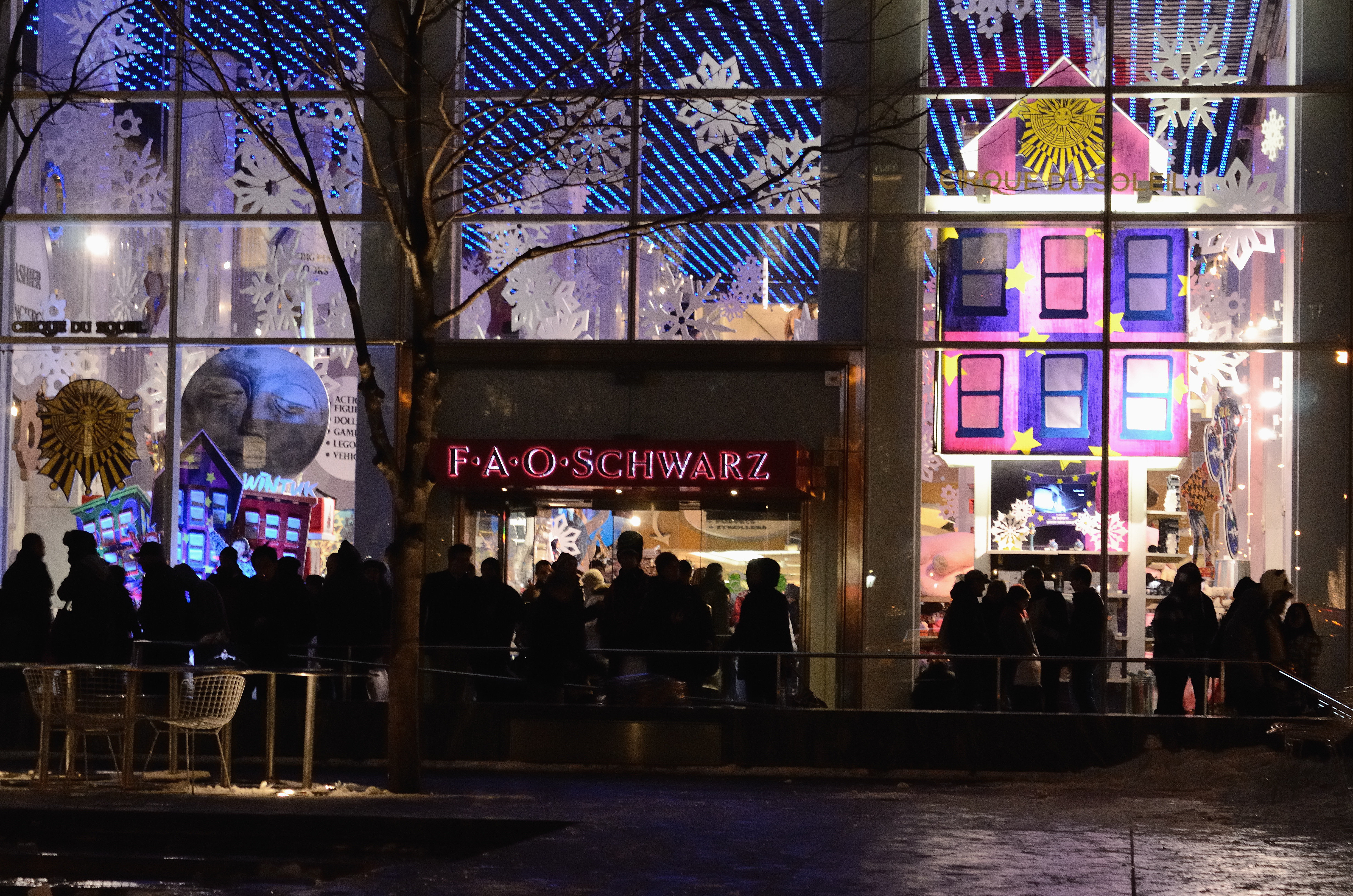 Crowded FAO Schwarz